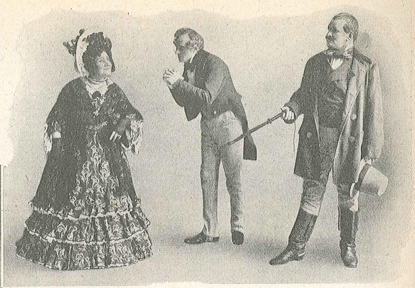 Scene from Ivan Turgenev's play Arvsskiftet at the Royal Dramatic Theatre in Stockholm 1911. Left to right: Thecla Åhlander, Carl Browallius and Albin Lavén.